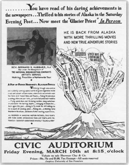 Flyer for a lecture by Father Bernard R. Hubbard, image via from Kathy Price, Fairbanks, Alaska. Image published before 1964 with no copyright notice.